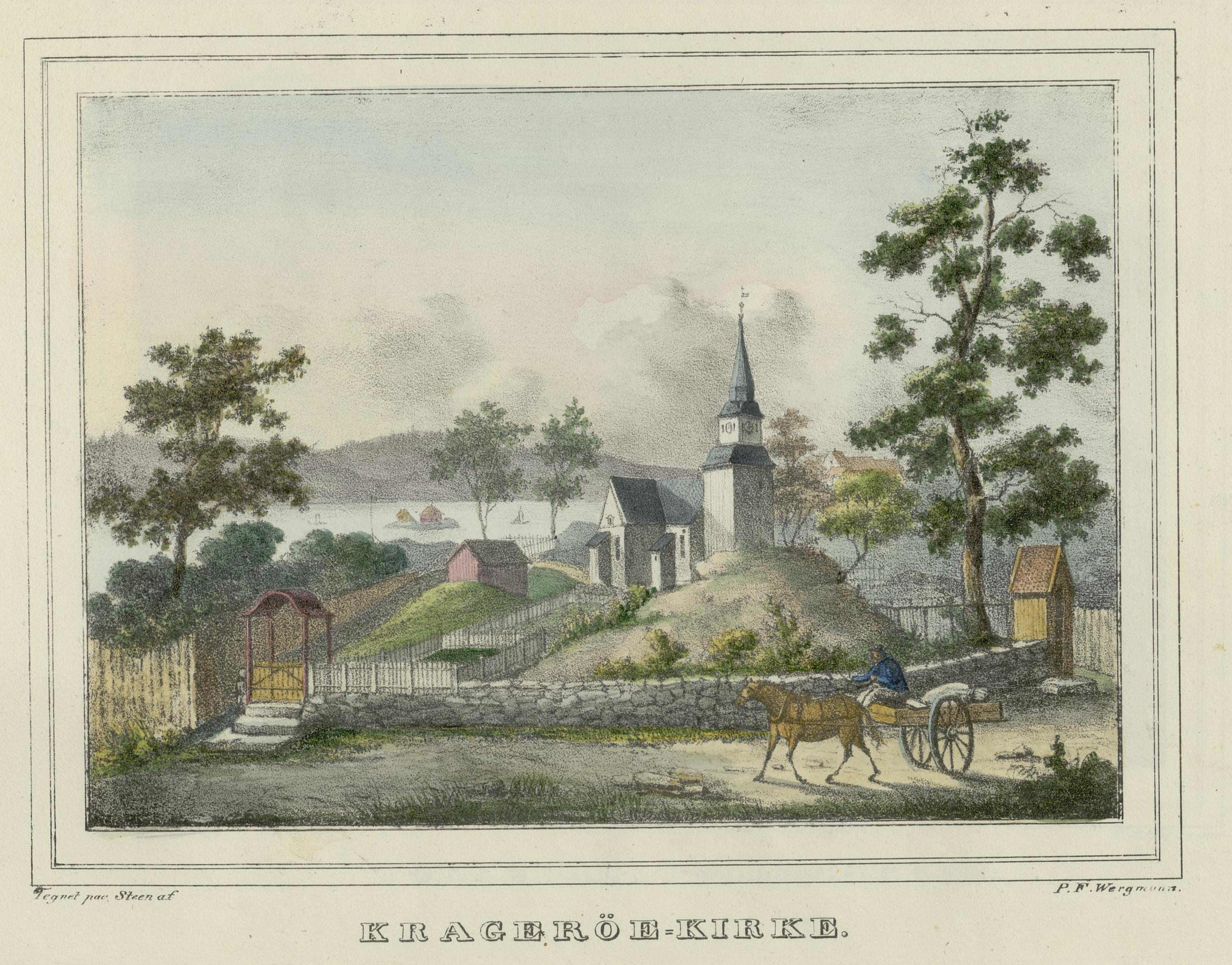 Illustration from the book "Norsk Prospect-Samling" by Wergmann, P.F. and published by P.F. Wergmann (no, 1833-1836)